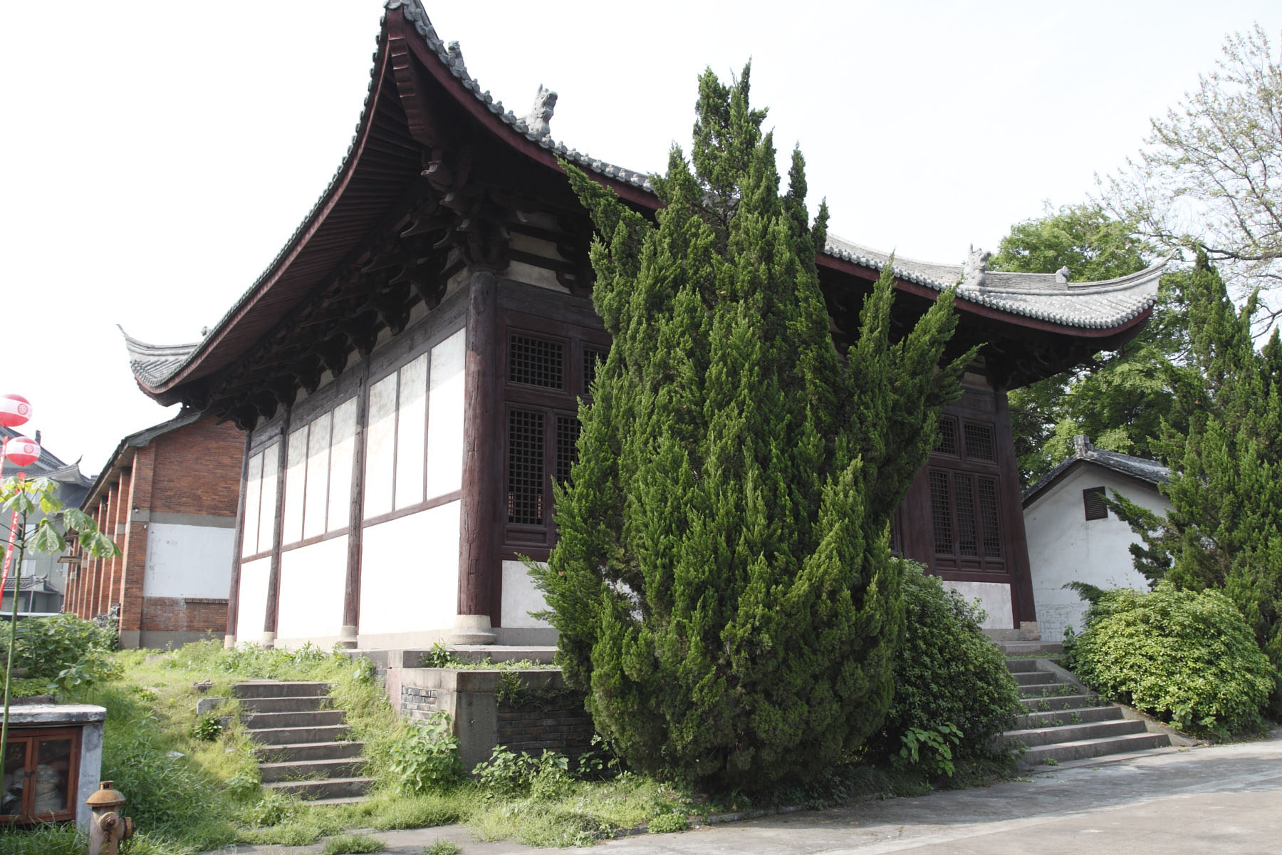 Main Hall of the Tianning Temple in Jinhua, Zhejiang, China